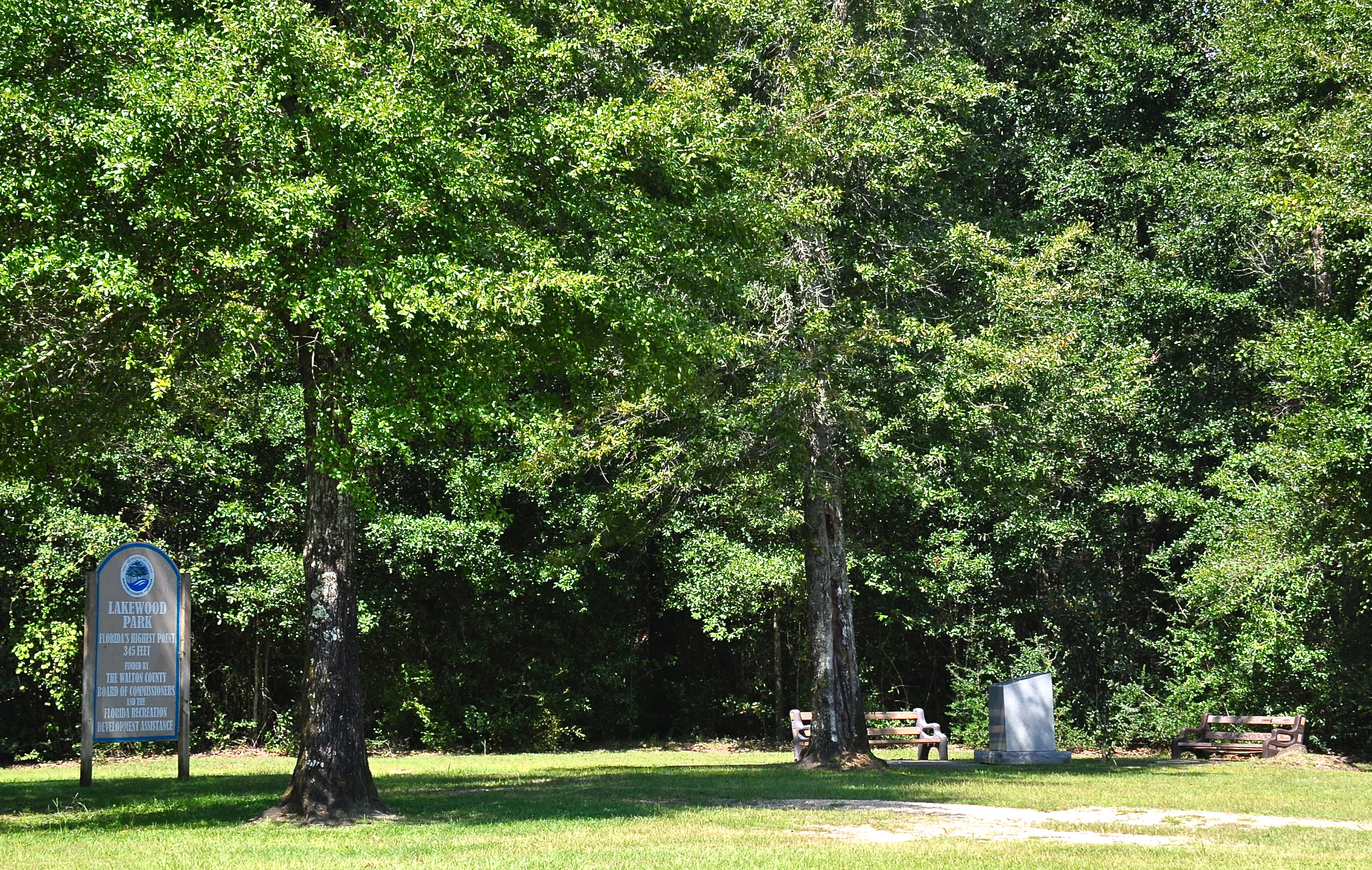 The summit of Britton Hill, the state of Florida's highest point at 345 feet. It is located at Lakewood Park, in the northern section of Walton County.